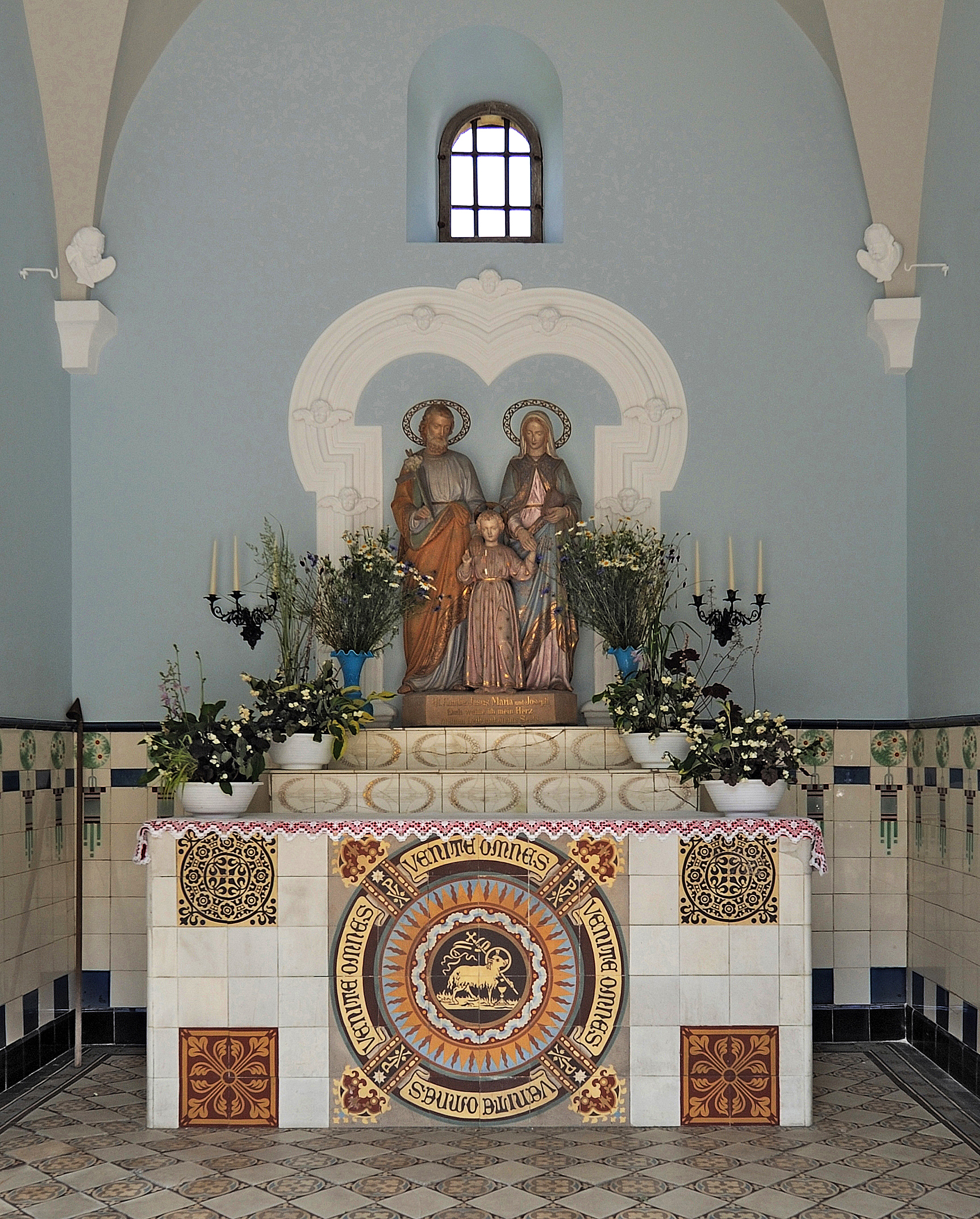 Luxembourg, Kehlen: chapel rue d'Olm.